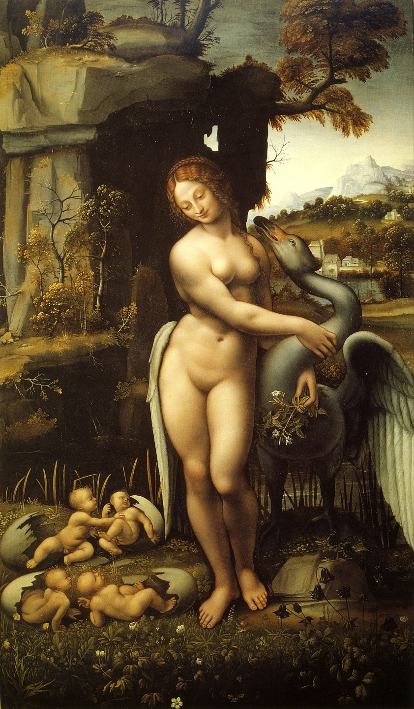 A 16th Century copy of a lost Leonardo painting "Leda and the Swan", known as the "Spiridon Leda". Now in Uffizi, Florence.